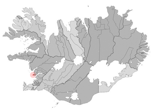 Based on Municipalities of Iceland.png.